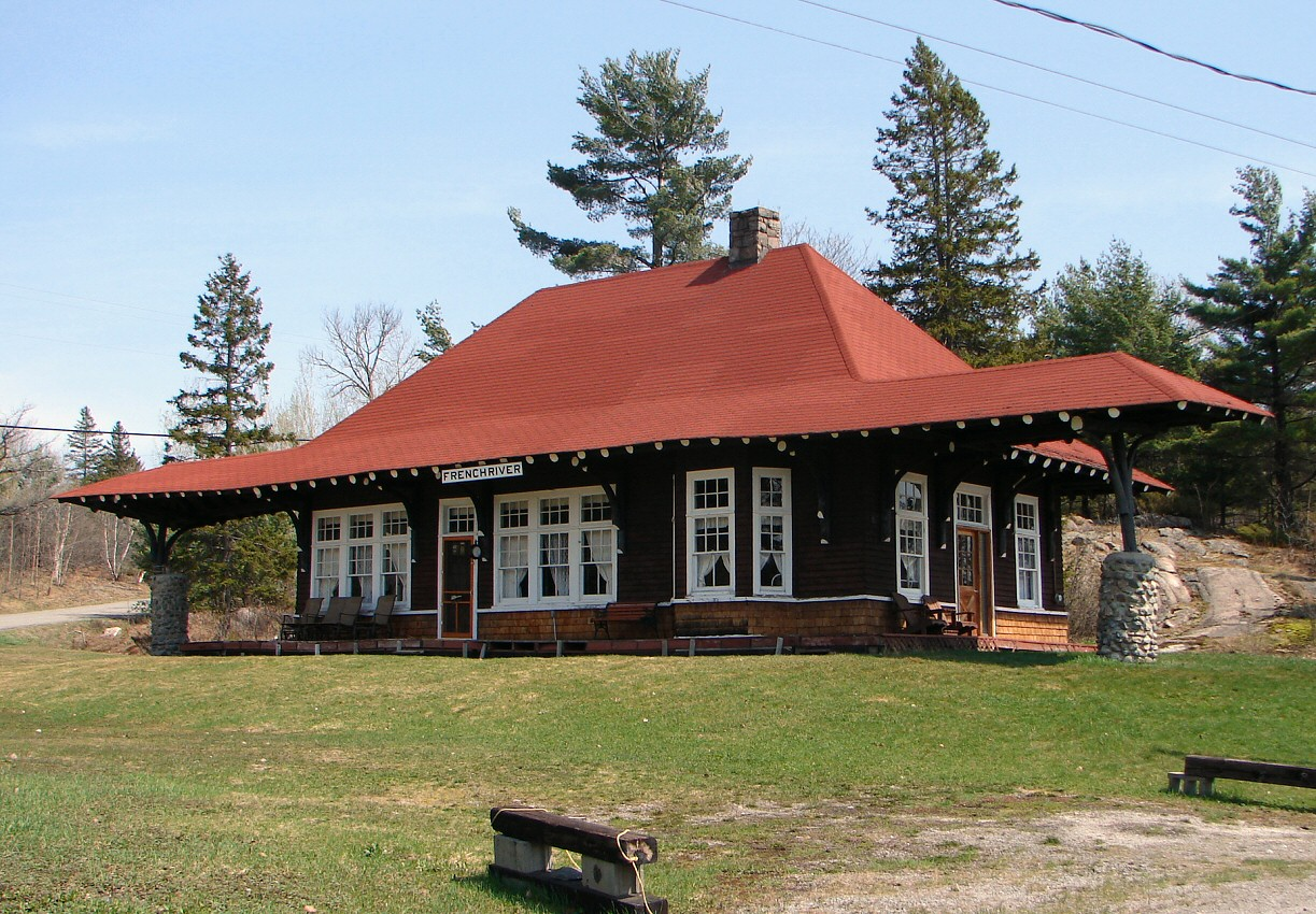 French River Station, Ontario, Canada